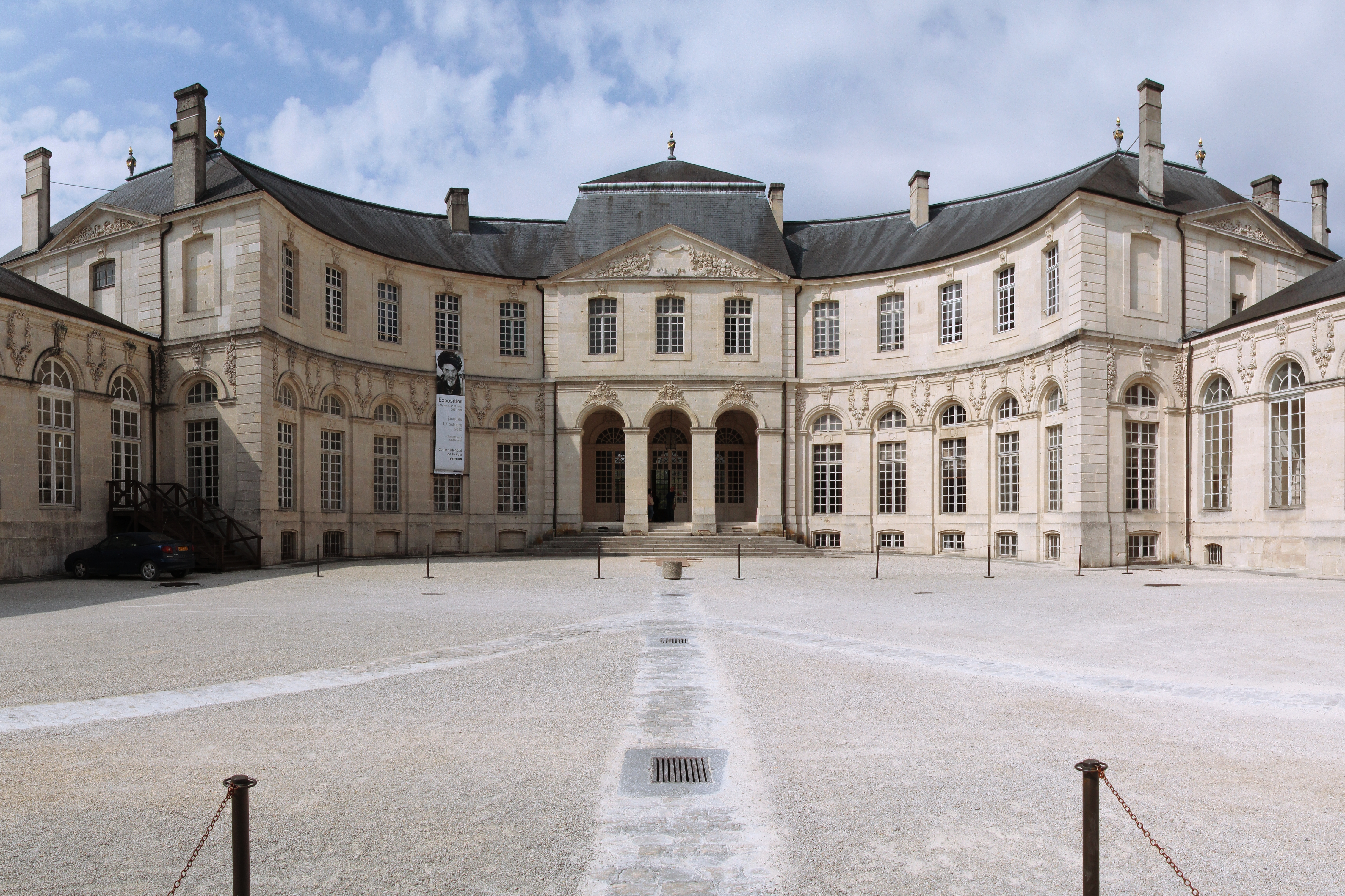 Mondial center for peace, liberties and human rights (Verdun, France)